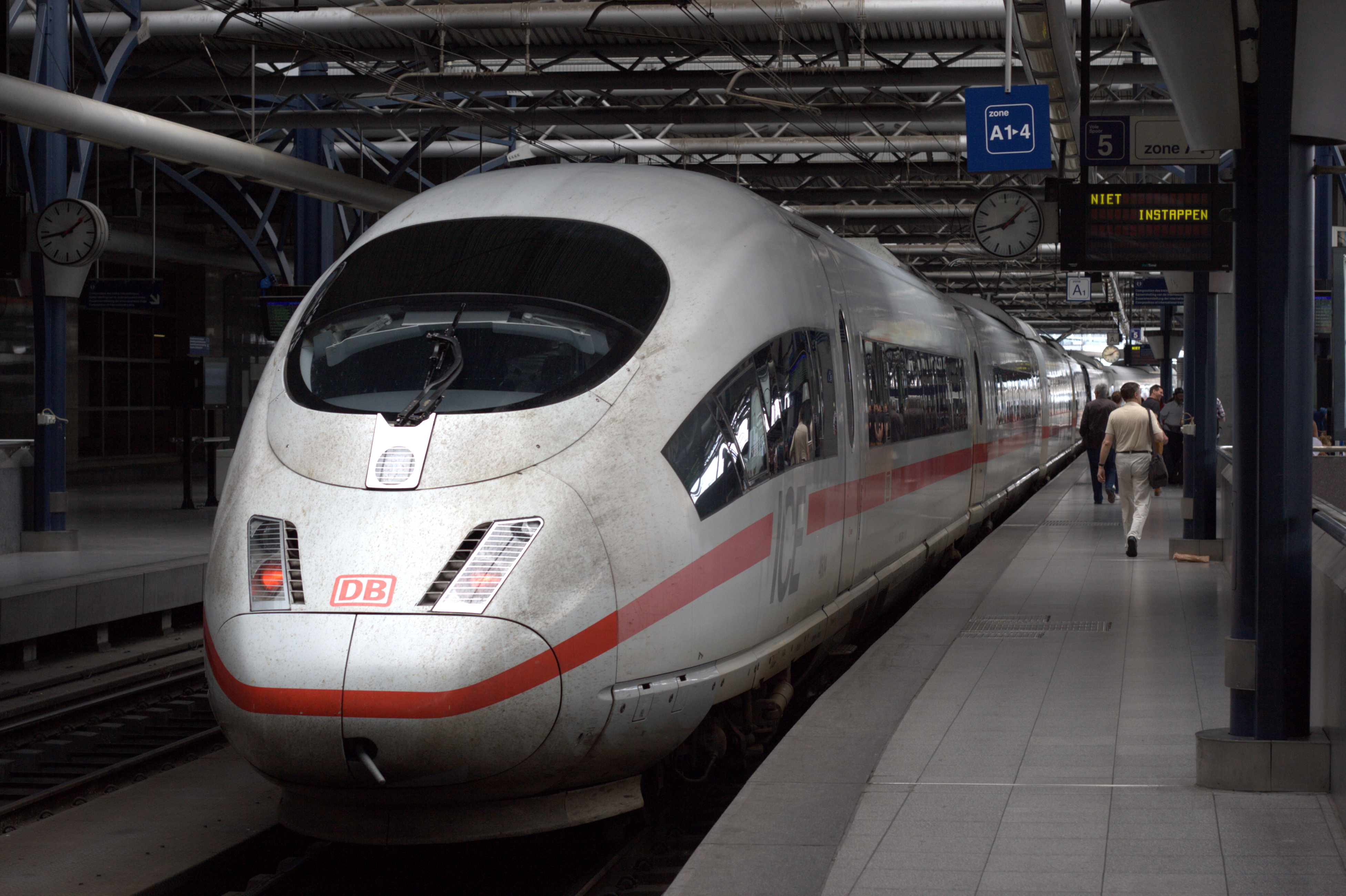 ICE 16 International in the Brussels-South railway station